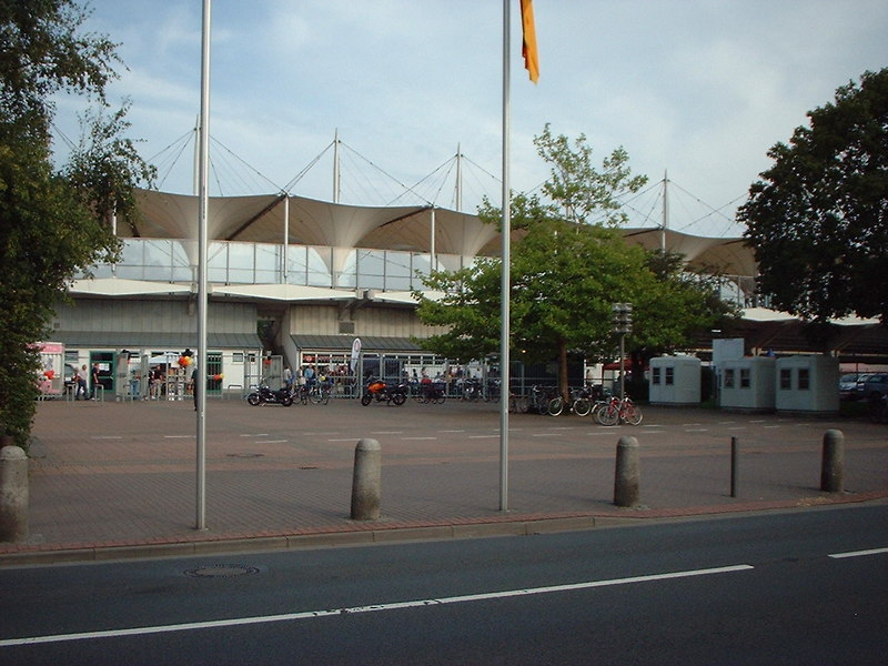 This is the Marschwegstadion in Oldenburg. I take this picuture in sommer 2006.